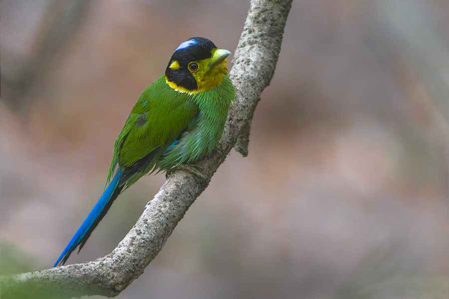 The species Long-tailed Broadbill had been photographed from Naina Devi Himalayan Bird Conservation Reserve in Uttarakhand, India on 27.05.2016.